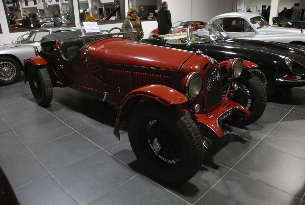 Alfa Romeo Leontina Gran Sport 1750 by Pettenella (1975) – Replica Alfa Romeo Gran Sport 1750 by Zagato (1930s).